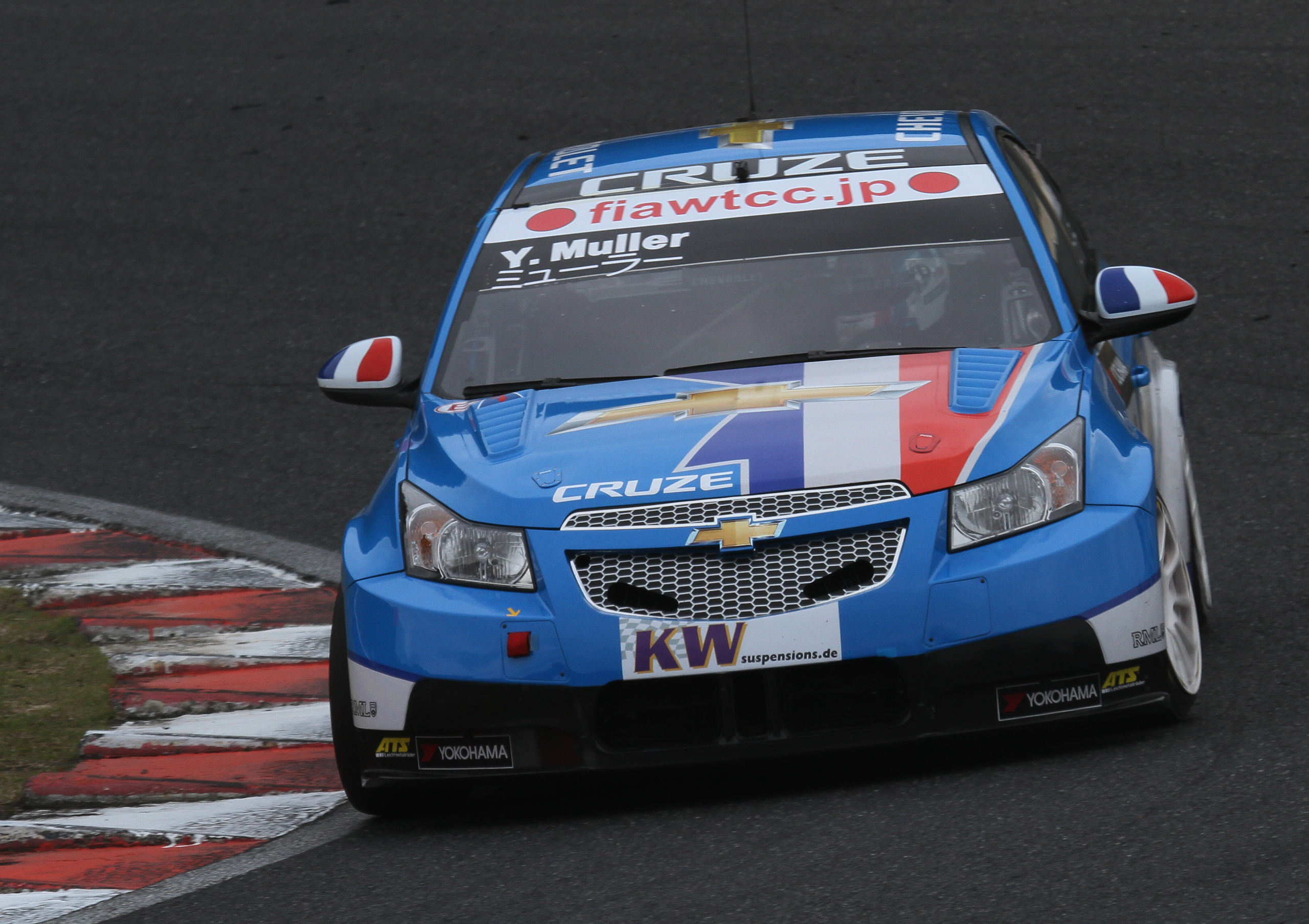 World Touring Car Championship 2010 Race of Japan: Yvan Muller (Chevrolet) during the 2nd free practice session on Saturday.